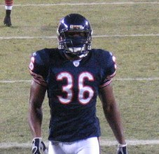 I took this picture at a Chicago Bears football game.